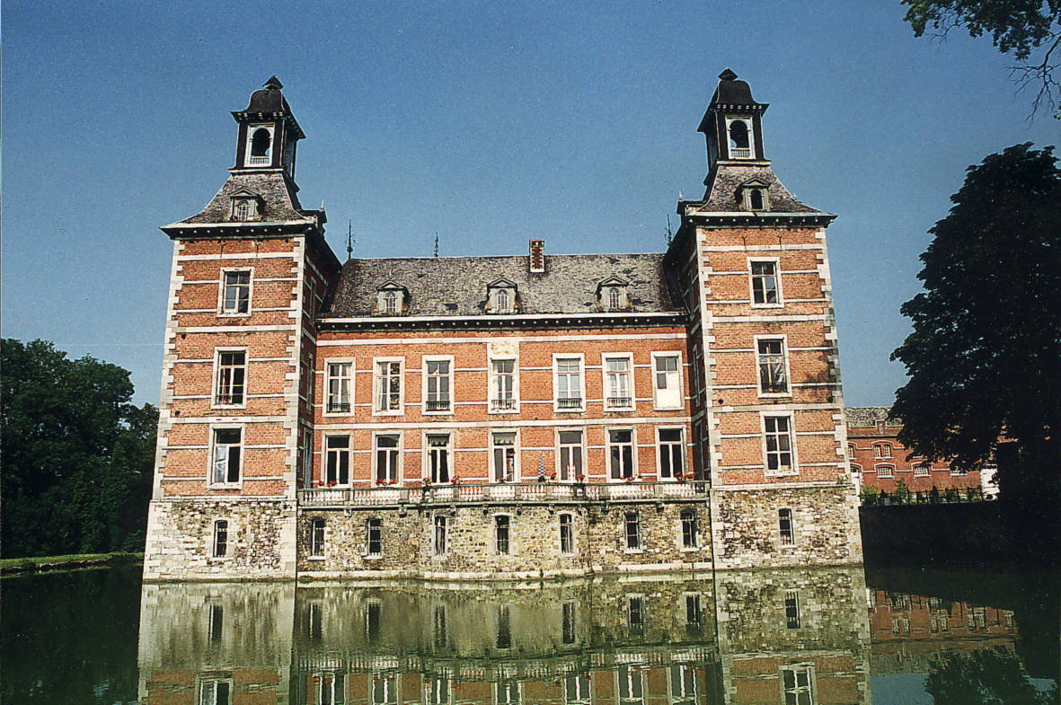 West side of the moated Castle Hermalle-sous-Huy, seventeenth century. The terrace was added in the nineteenth century.